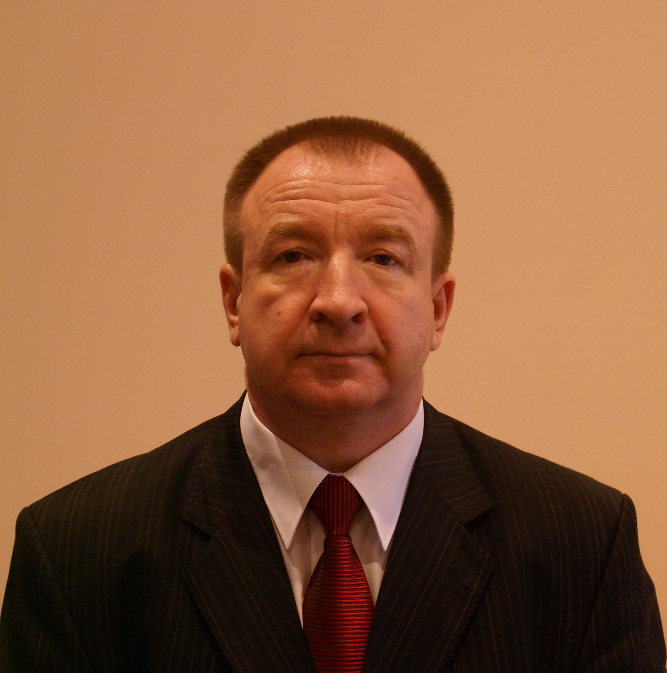 Photo of Igor Panarin